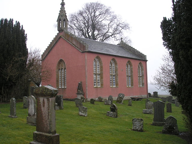 Channelkirk in Lauderdale